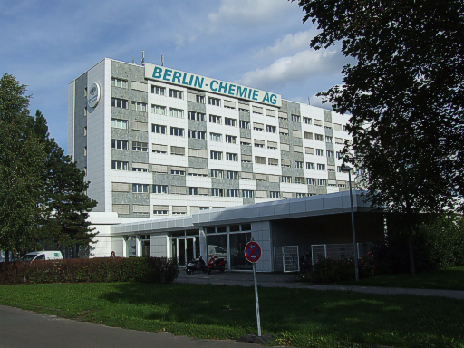 Main building of Berlin Chemie AG at Glienicker Weg, Berlin-Adlershof